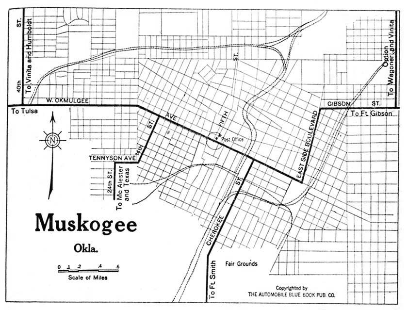 A map of Muskogee, OK from 1920 originally listed at